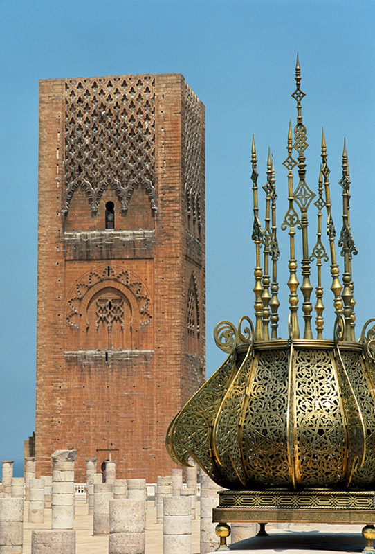 The Hassan tower, the minaret of the mosque in ruins at Rabat, Morocco.